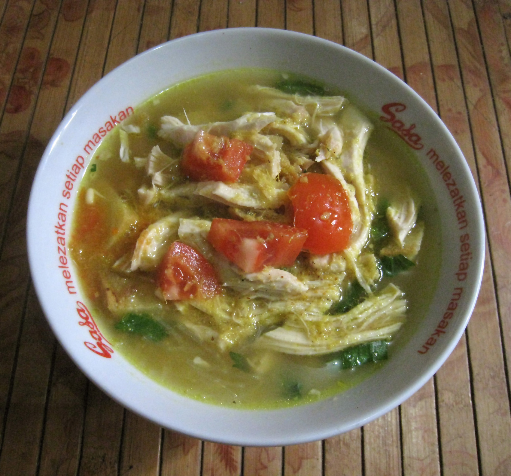 My mother's home made Soto Ayam (chicken soto). Popular chicken soup and comfort food in Indonesia. Jakarta, Indonesia. Boiled chicken in clear yellow turmeric and chicken broth soup, served with rice vermicelli, beansprouts, celery, boiled egg, potato, leek, tomato, and fried shallot.